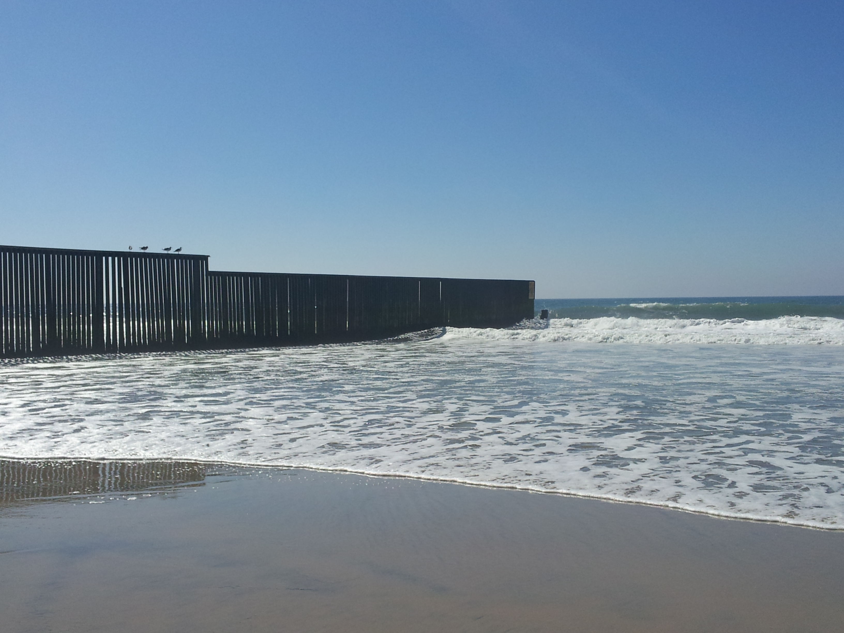 Image of the border fence reaching the Pacific Ocean, from the angle of Border Field State Park in San Diego, California.